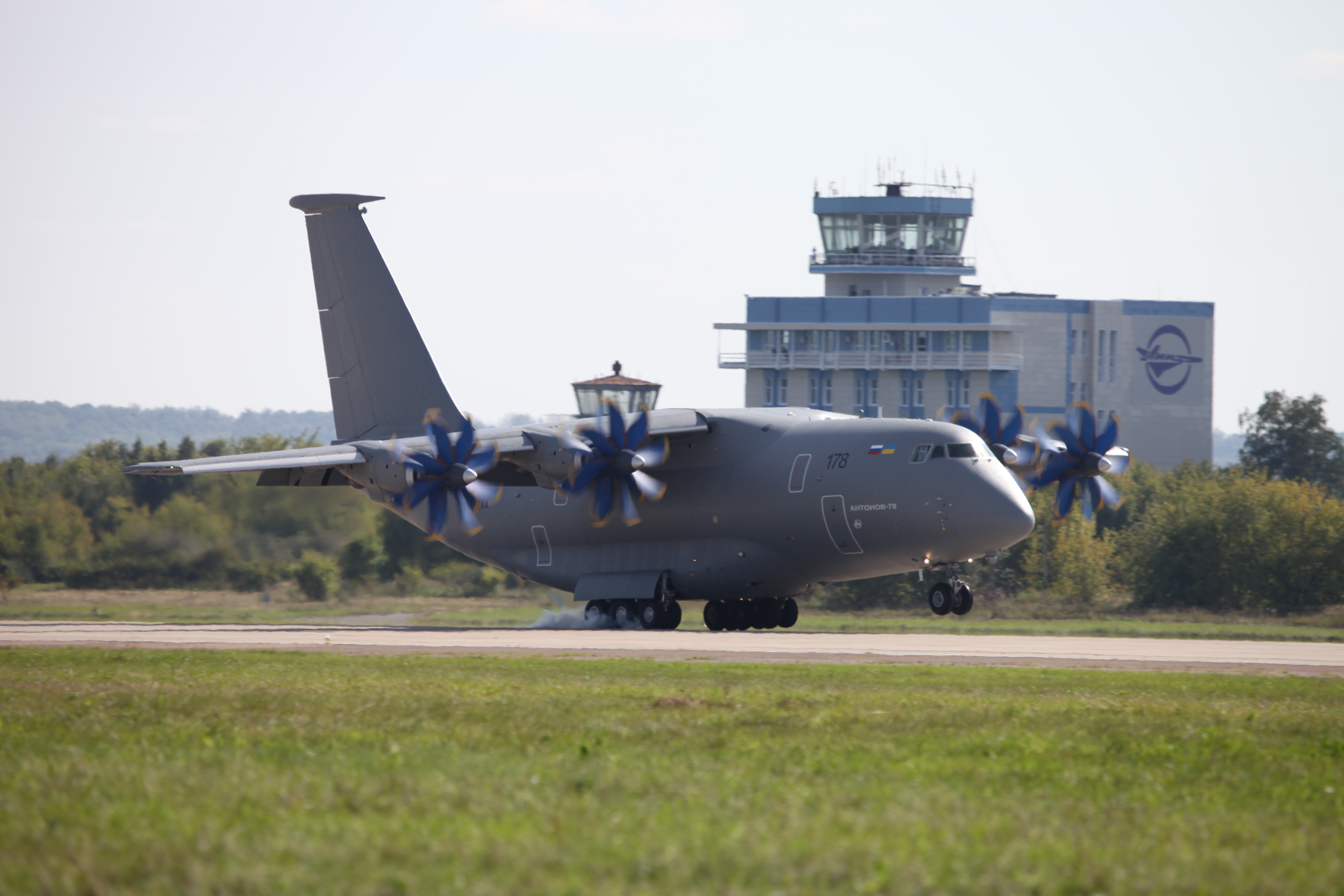 An-70